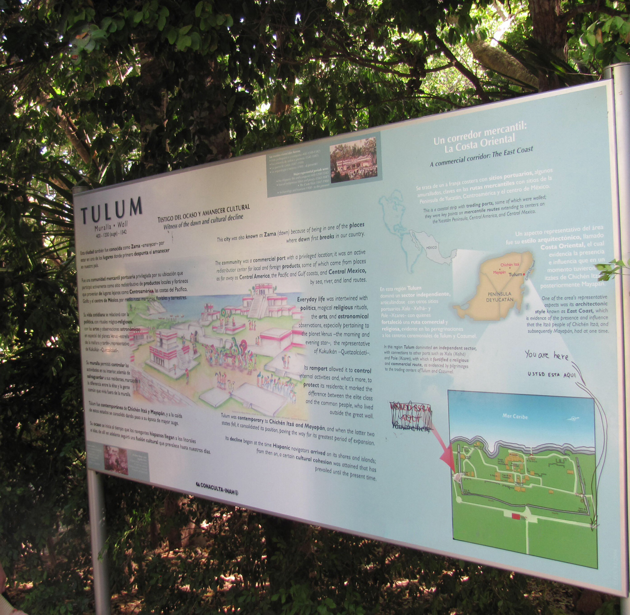 Tulum info